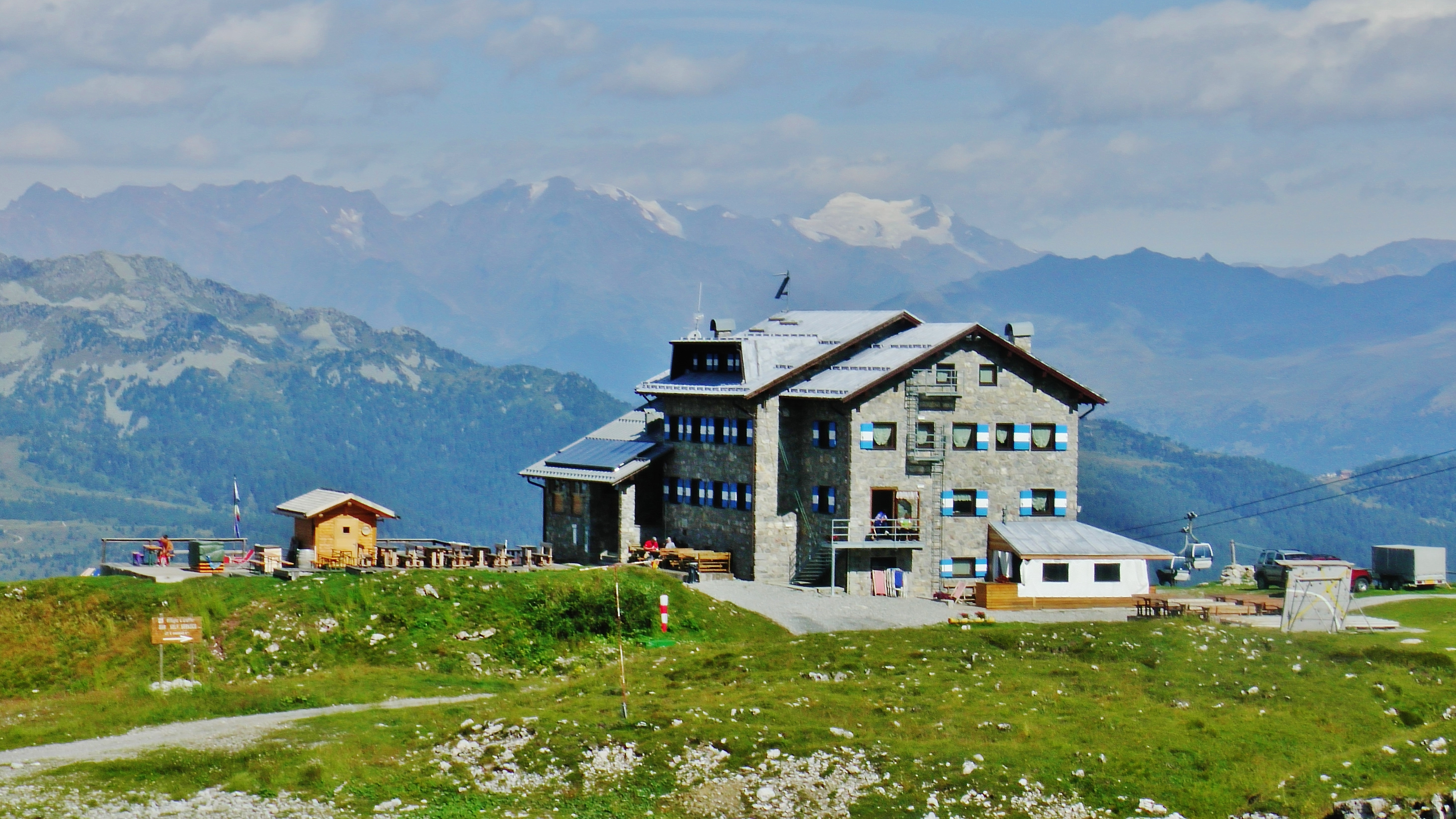 Alpine hut Rifugio Graffer from southeast towards Ortlergroup.